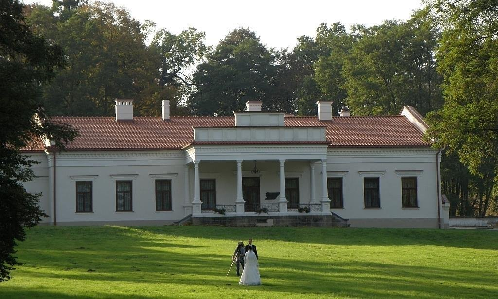 Ignacy Paderewski's manor house in Kąśna Dolna near Ciężkowice/Tarnów, Poland.